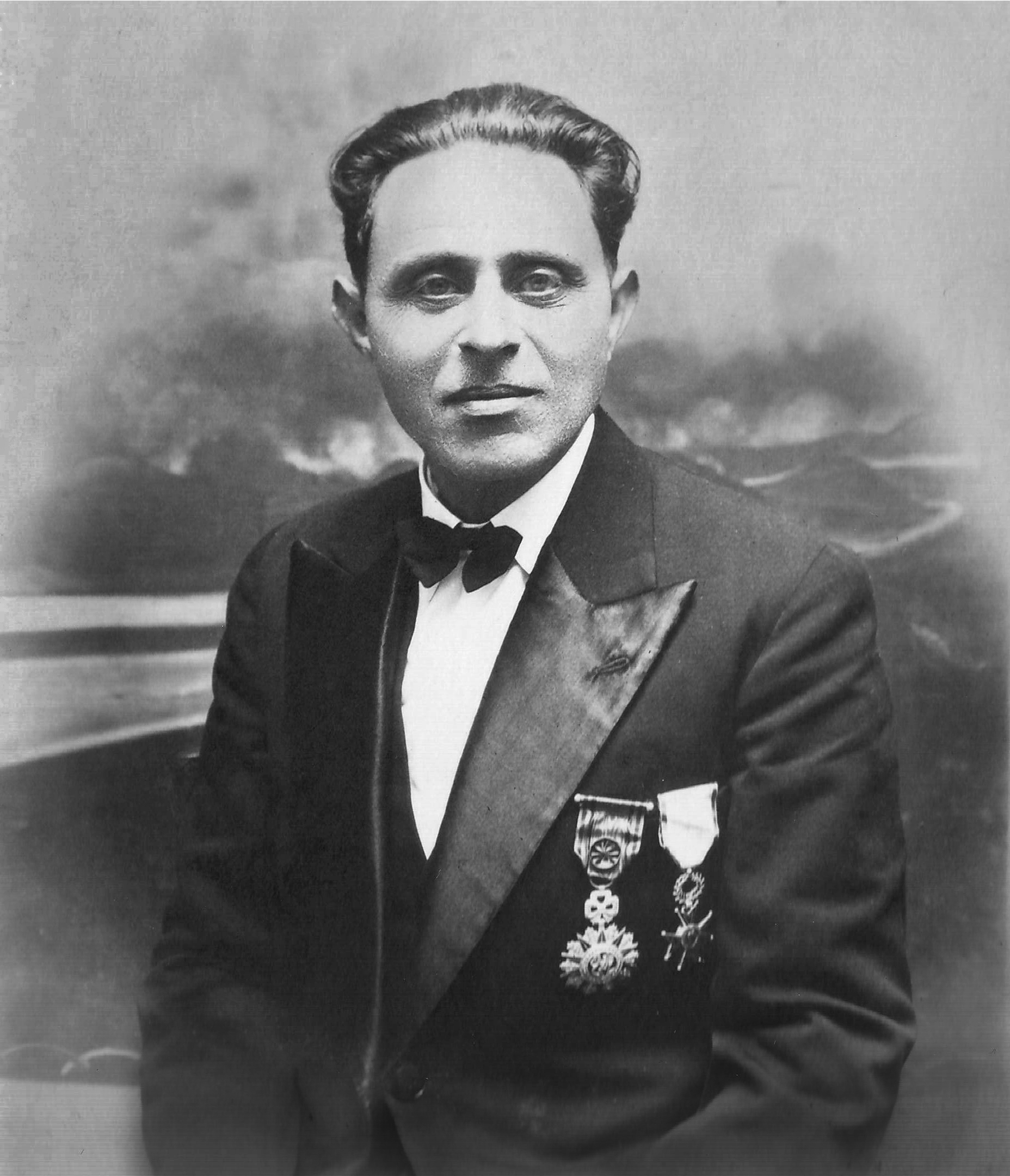 Portrait of Acher Mizrahi